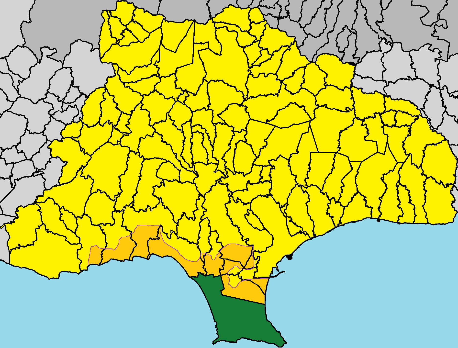 Akrotiri (village) in Limassol District.